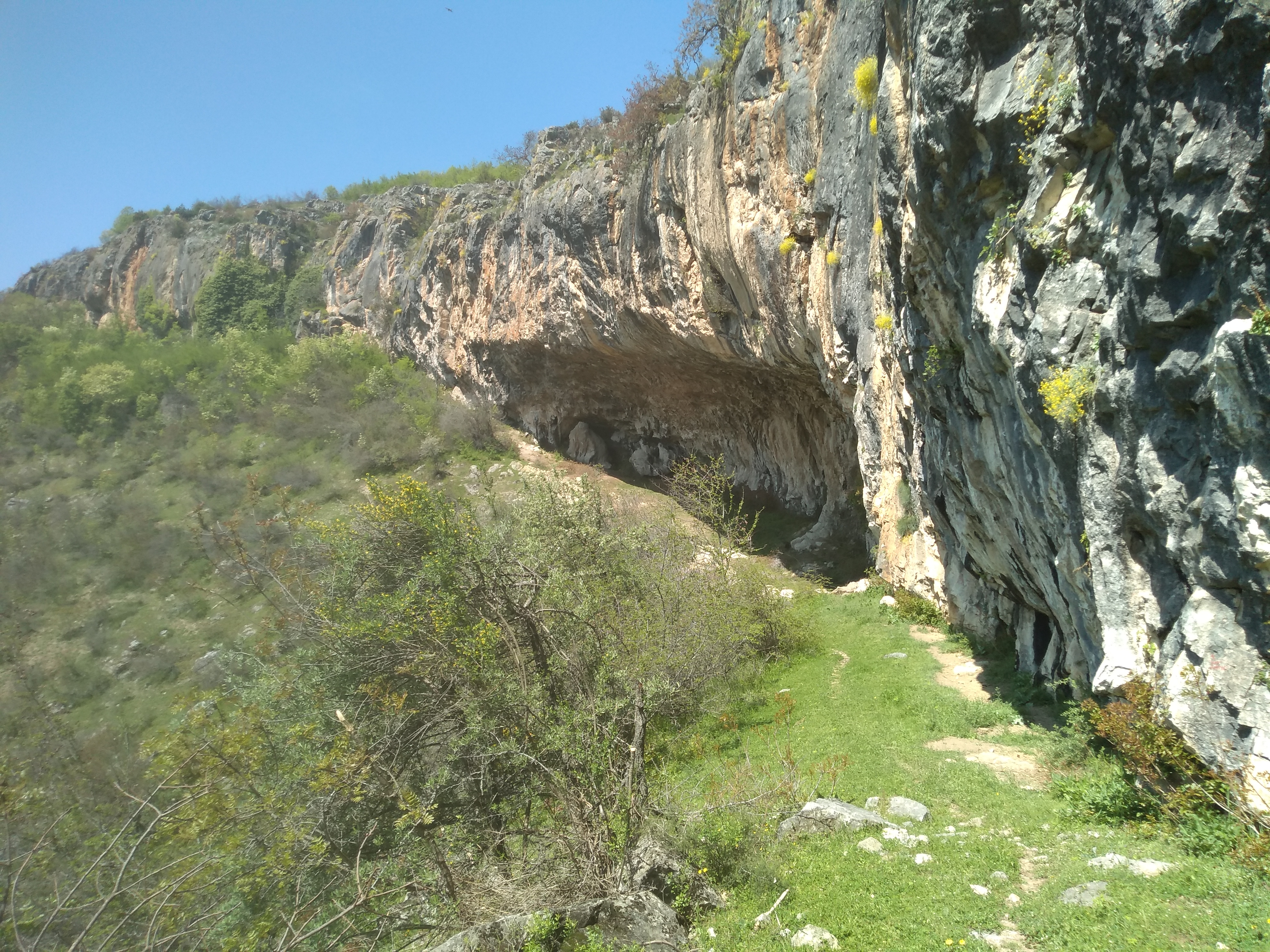 Kadina Cave, Macedonia